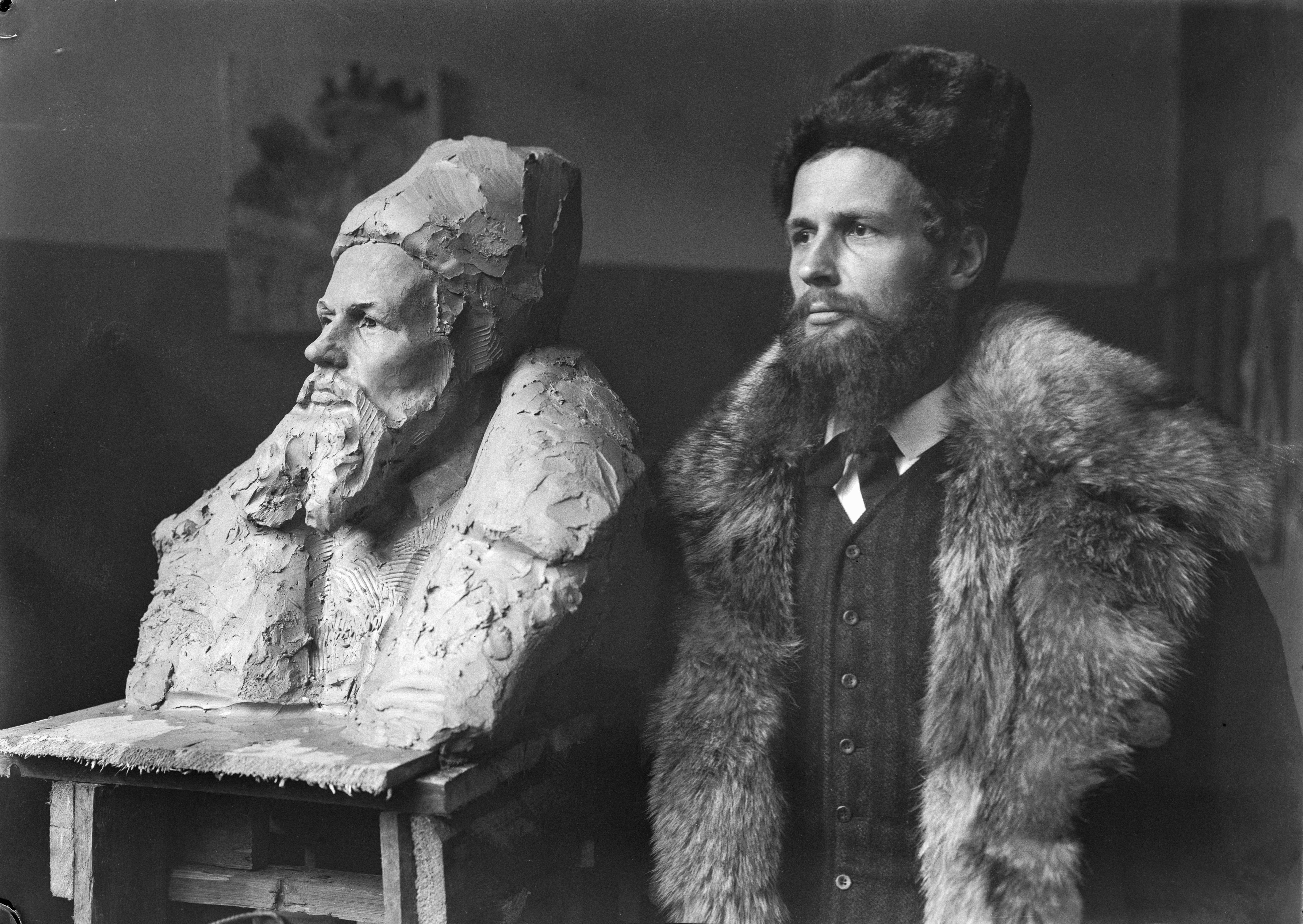 Photograph of the Finnish archaeologist and explorer Sakari Pälsi (1882–1965) posing for a sculpture by Alpo Sailo.